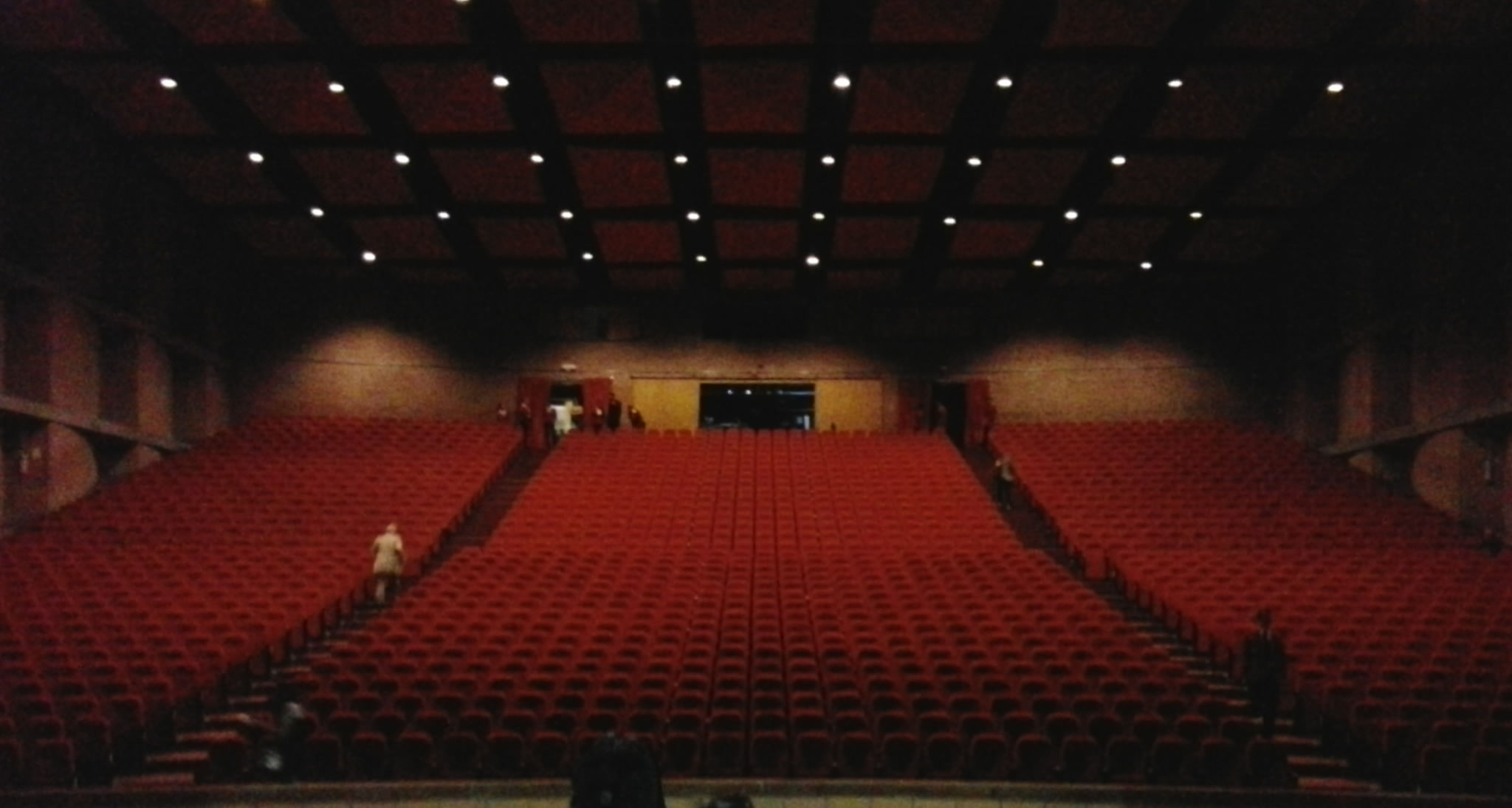 The udem Theater at stage